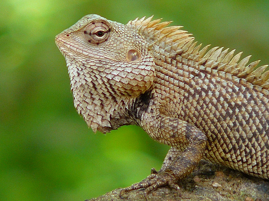 Oriental Garden Lizard (Calotes versicolor) near Guruvayur, Kerala, India.